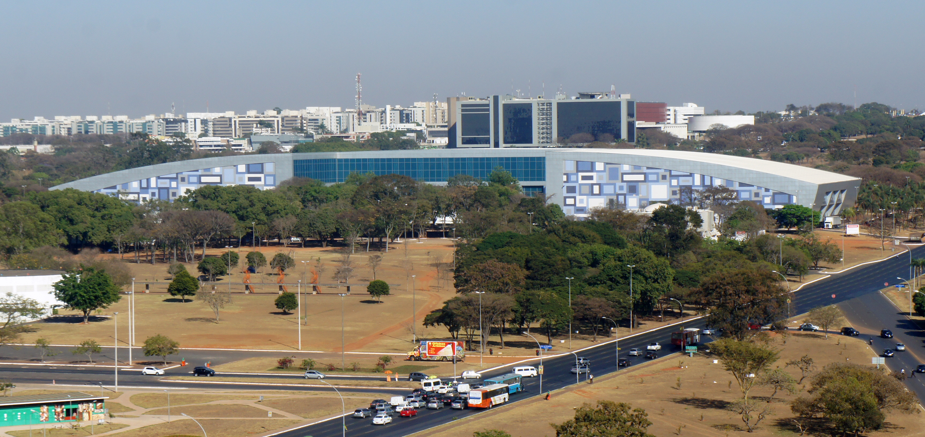 Ulysses Guimarães Convention Center, Brasilia, D.F., Brazil